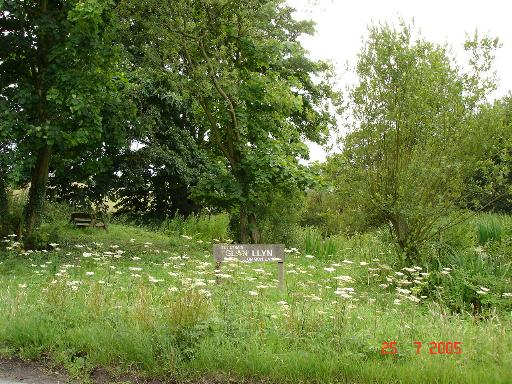 Common land near Ruallt. Common land named Glan Llyn near Ruallt and the A55